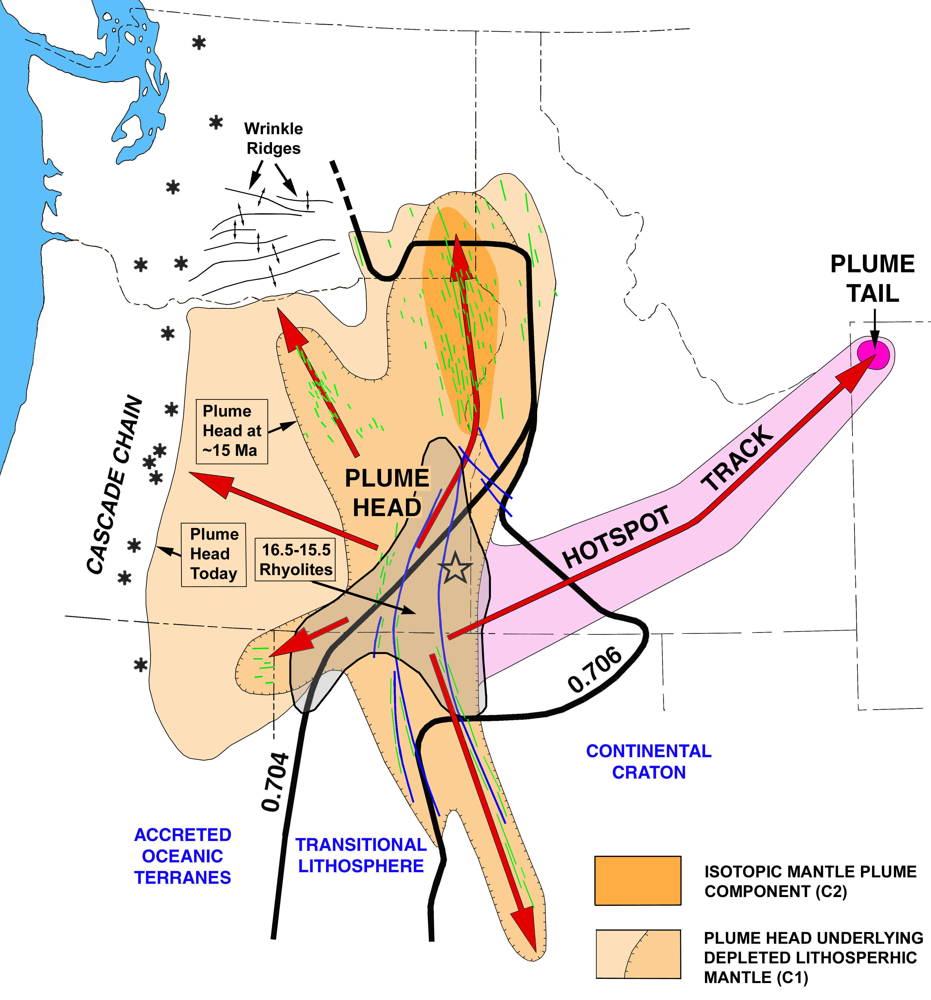 Two-stage spreading model of the CRB-Yellowstone mantle plume, showing relationship with the Columbia River Flood-Basalt province and track of the Yellowstone hotspot.